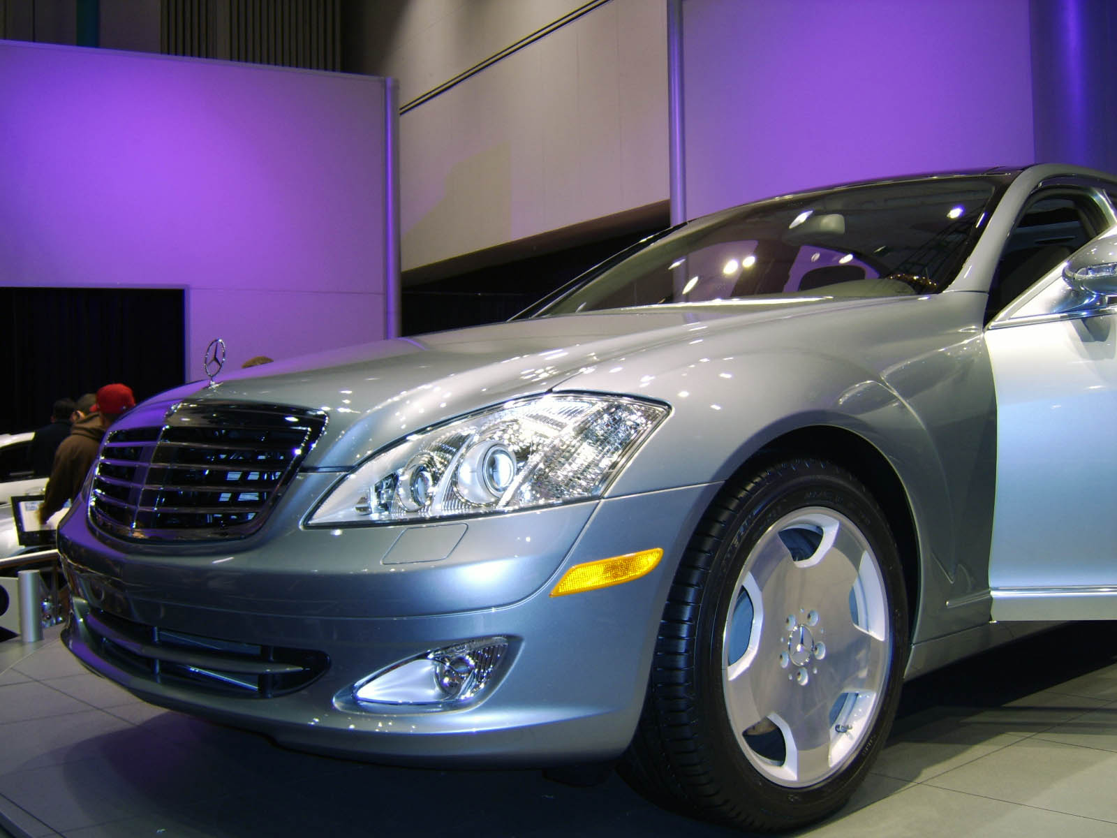 Picture of the Los Angeles Auto Show, Mercedes Benz exhibit (photo taken by indyaman)